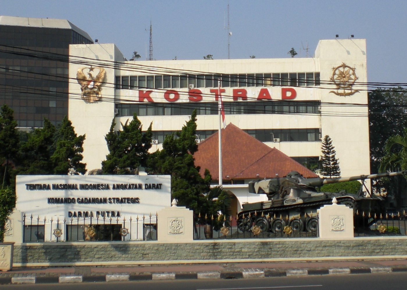 TNI Kostrad Headquarters in Jakarta, Indonesia, opposite Gambir Station, (Jl. Merdeka Timor)